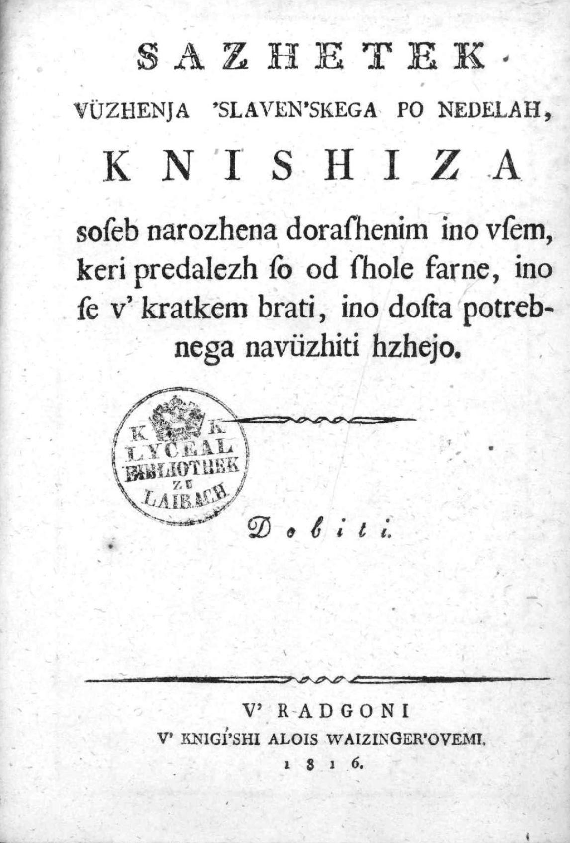 Peter Dajnko: Sazhetek vüzhenja 'slaven'skega (Beginning of the Slavic teaching), coursebook in Styrian Slovene language from 1816